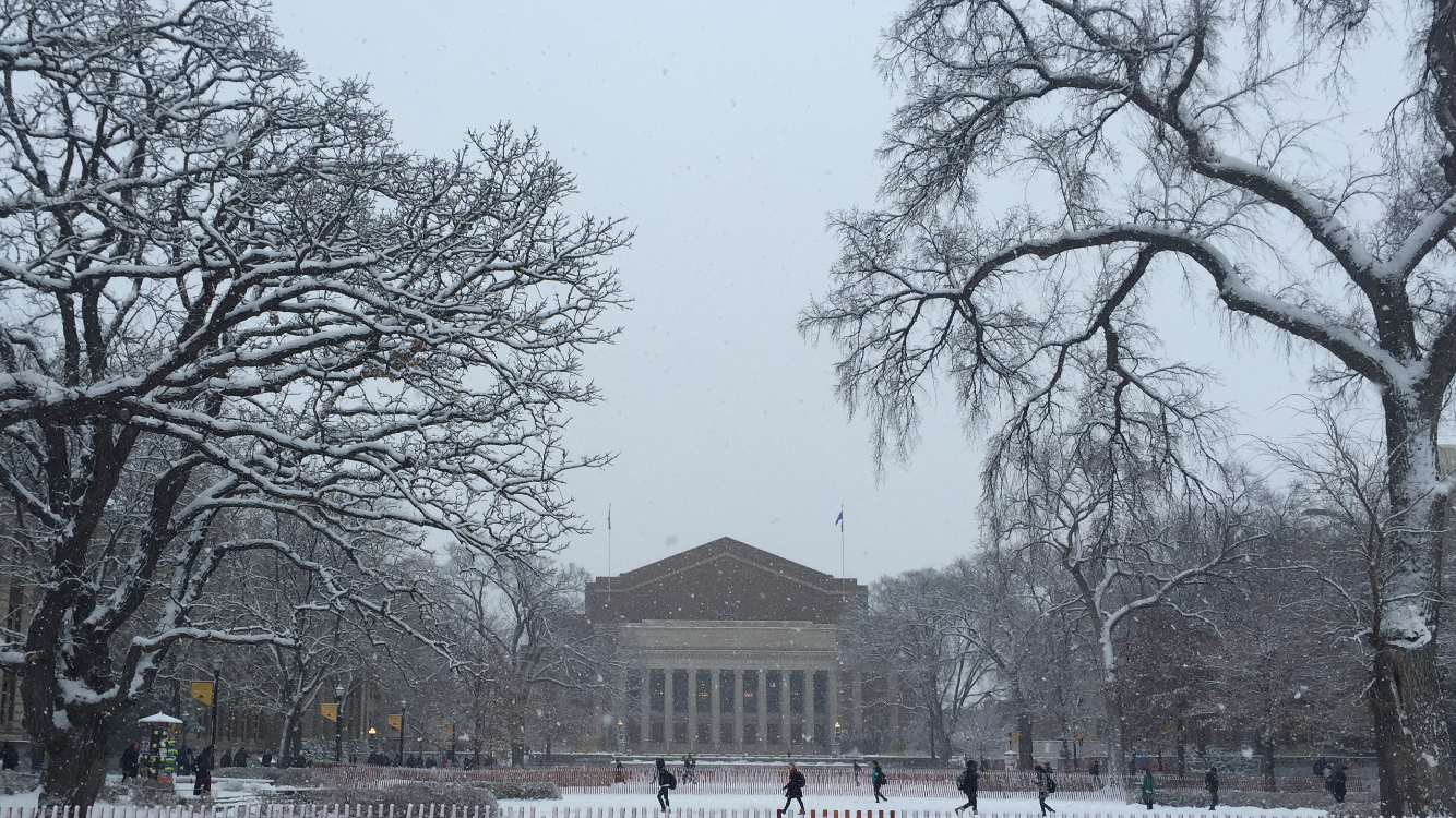 Snowfall at Northrop Mall at the University of Minnesota in December, 2015